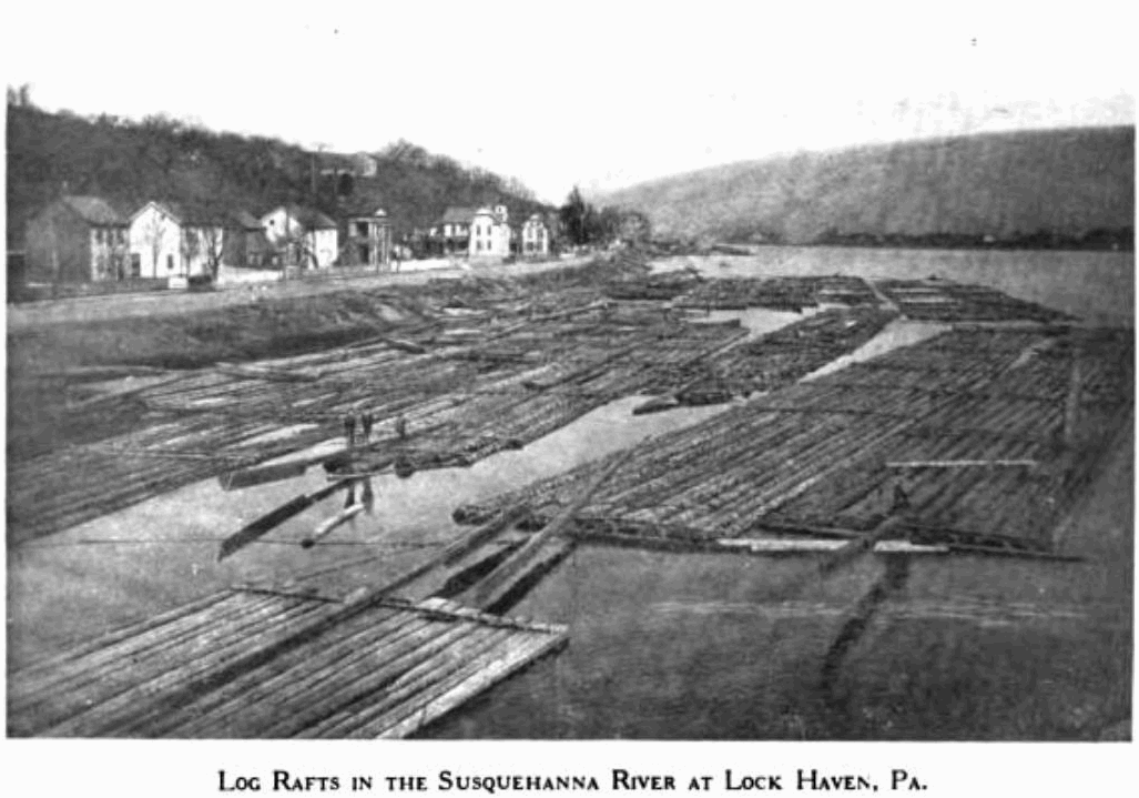 Log Rafts in the West Branch Susquehanna River at Lock Haven, Pennsylvania.